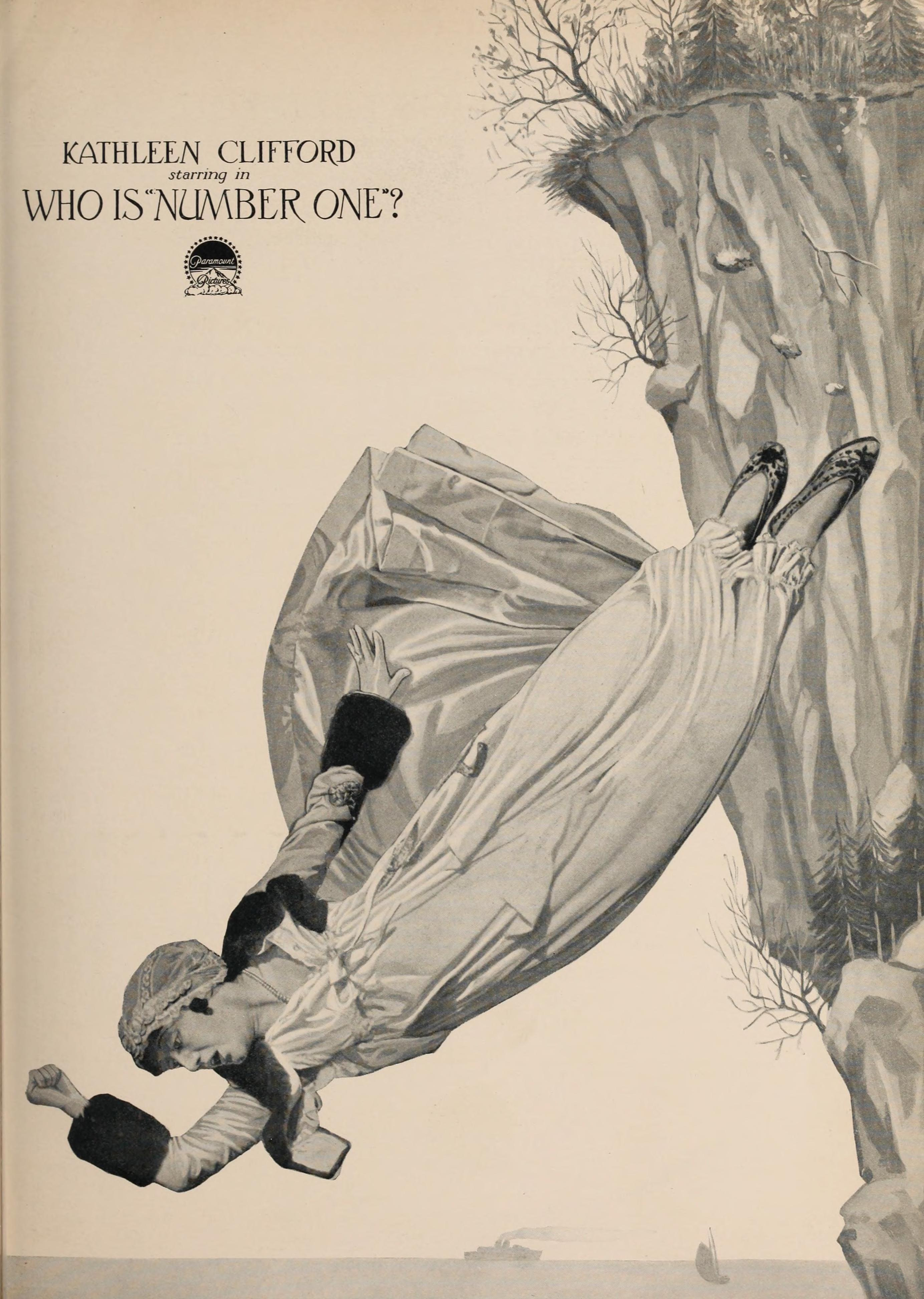 Advertisement in Moving Picture World, Nov 1917 for the American film serial Who Is Number One? (1917) with Kathleen Clifford.